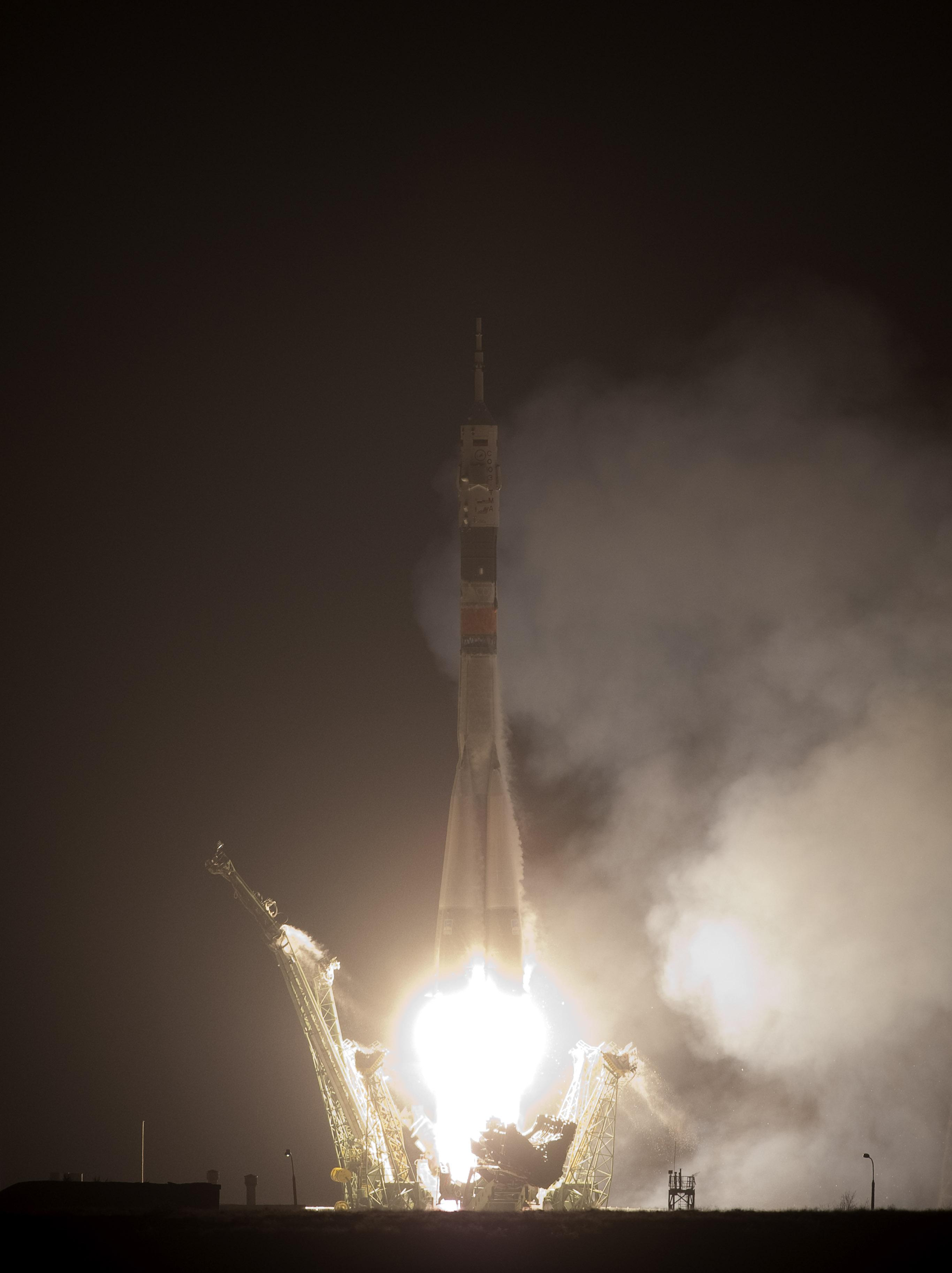 The Soyuz TMA-17 rocket launches from the Baikonur Cosmodrome in Kazakhstan at 4:52 p.m. EST on Sunday, Dec. 20, carrying Expedition 22 NASA Flight Engineer Timothy J. Creamer of the U.S., Soyuz Commander Oleg Kotov of Russia and Flight Engineer Soichi Noguchi of Japan to the International Space Station.